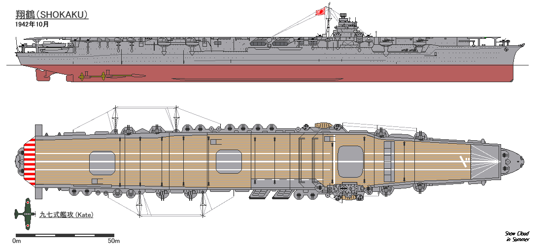 Figure of Japanese aircraft carrier SHOKAKU on October 1942.